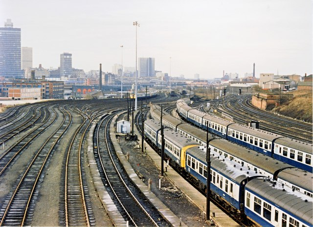 Red Bank carriage sidings 1989. Several sets of carriage sidings existed on the lines approaching Manchester Victoria from the east. Red Bank was the largest after the steam age, but was in steady decline after many services were switched from Manchester Victoria to Manchester Piccadilly in 1988. Compare the skyline and foreground with my similar photographs from 1991 829501 and 2008 804804.